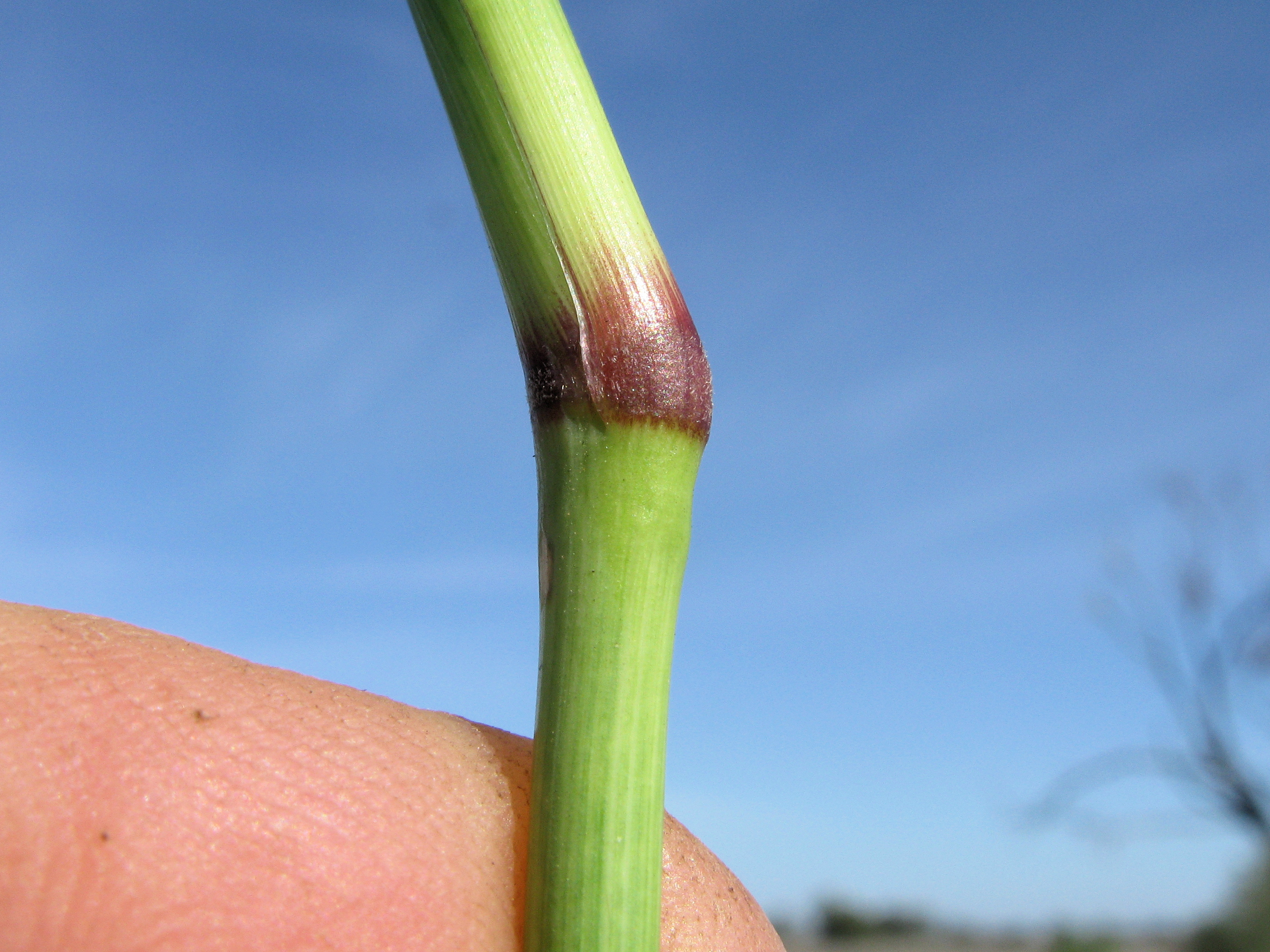 Introduced warm-season perennial large tufted C4 grass; stems usually have hairy nodes, grow 30-200 cm tall and arise from short rhizomes. Leaf bases may be hairy and blades are 10-60 cm long and 3-14 mm wide. Flowerheads are narrow cylindrical bristly spike-like panicles to 18 cm long. Spikelets are 2-flowered and are surrounded by uniformly coloured bristles that remain after the spikelets fall; the upper glume is 40-55% of the spikelet's length. Flowers from early summer to autumn. A native of Africa, it occurs is sown as a pasture species, especially on medium to heavy soils of high fertility; it has also become naturalised on the North West Slopes and Plains. Easy to establish on heavy clays and is tolerant of drought and temporary waterlogging. Has superior production to most other tropical grasses in its first and second year after establishment. Oxalates may affect horses and cattle. Has reasonable palatability and feed quality below about 40 cm in height, but quickly runs to head and is then avoided by stock; generally preferred by cattle rather than sheep. Graze frequently to maintain quality. Heavy grazing in late summer promotes autumn germination of winter annual legumes; however its abundance will decline under heavy continuous grazing. Sufficient soil nitrogen is essential for its persistence.